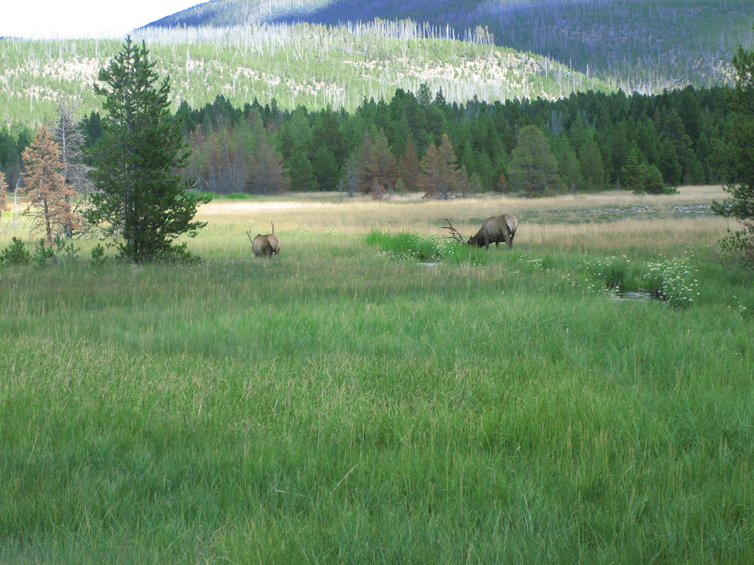 Mountain meadow at Yellowstone National Park